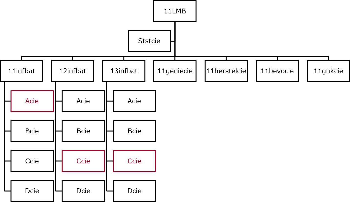 Organogram 11 Air Manoeuvre Brigade (Air Assault)